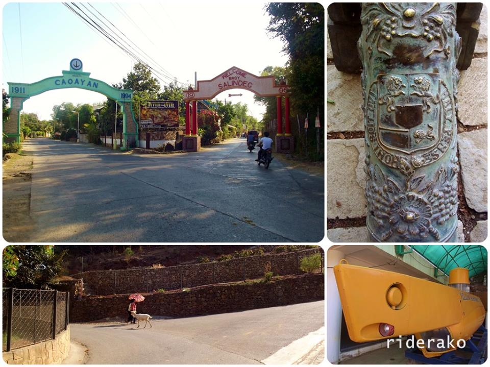 the yellow line indicates where salindeg is.